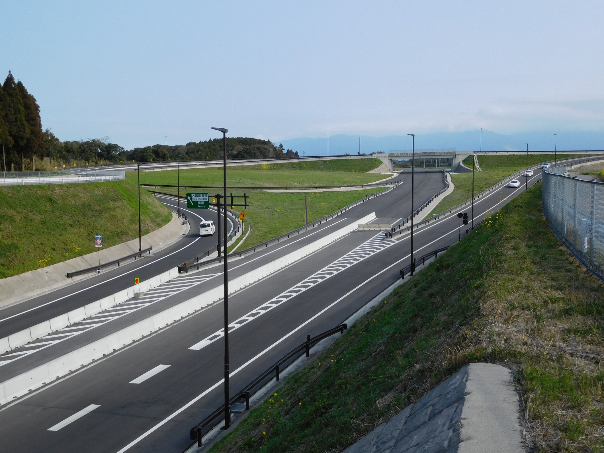 Kanoya-Kushira Junction of Higashi-Kyushu Expressway and Osumi Jukan Road in Kushira, Kanoya City, Kagoshima Prefecture, Japan